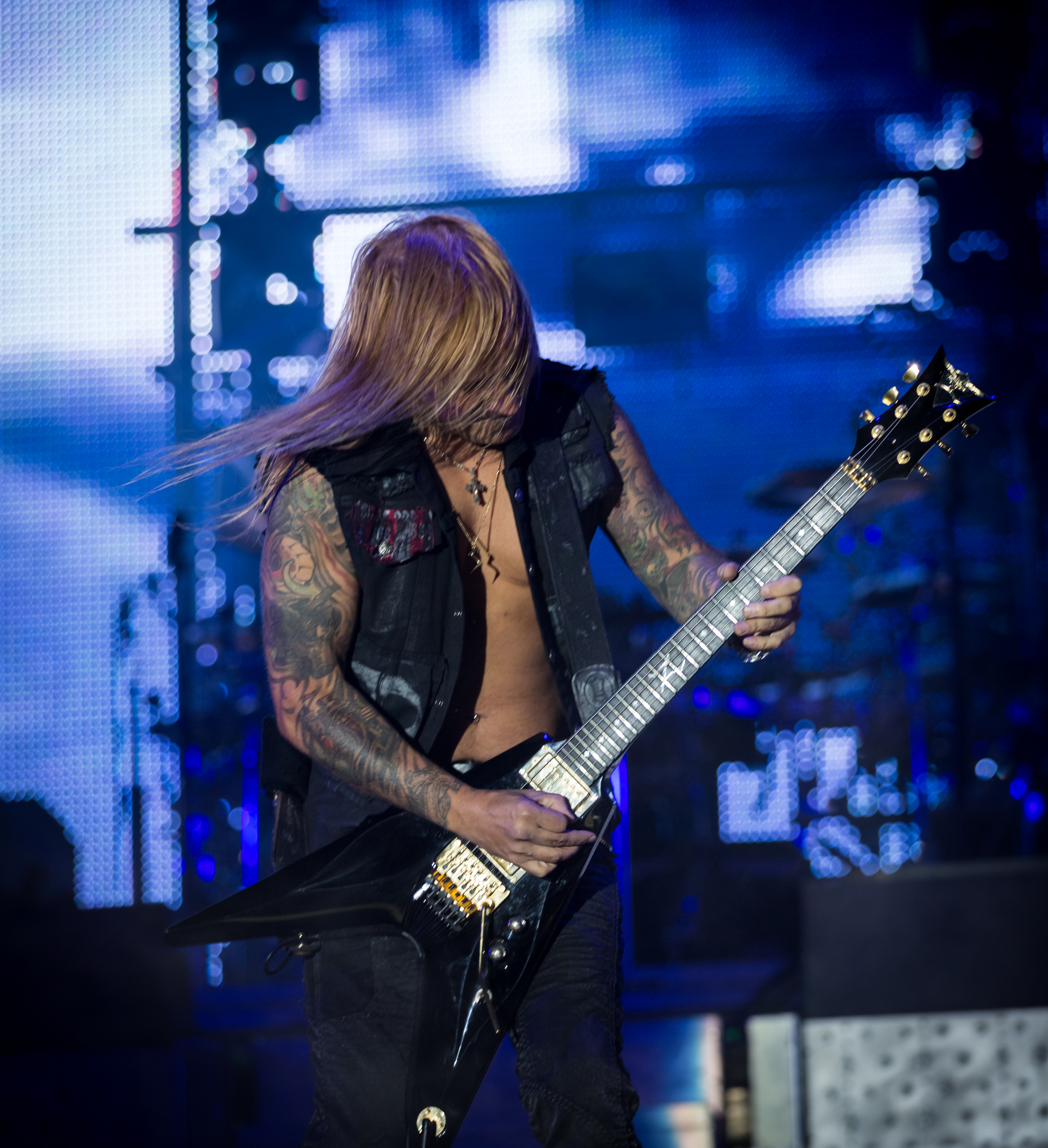 Savatage - Wacken Open Air 2015